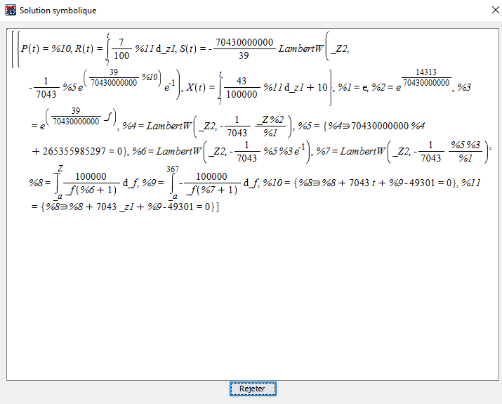 Solution symbolique